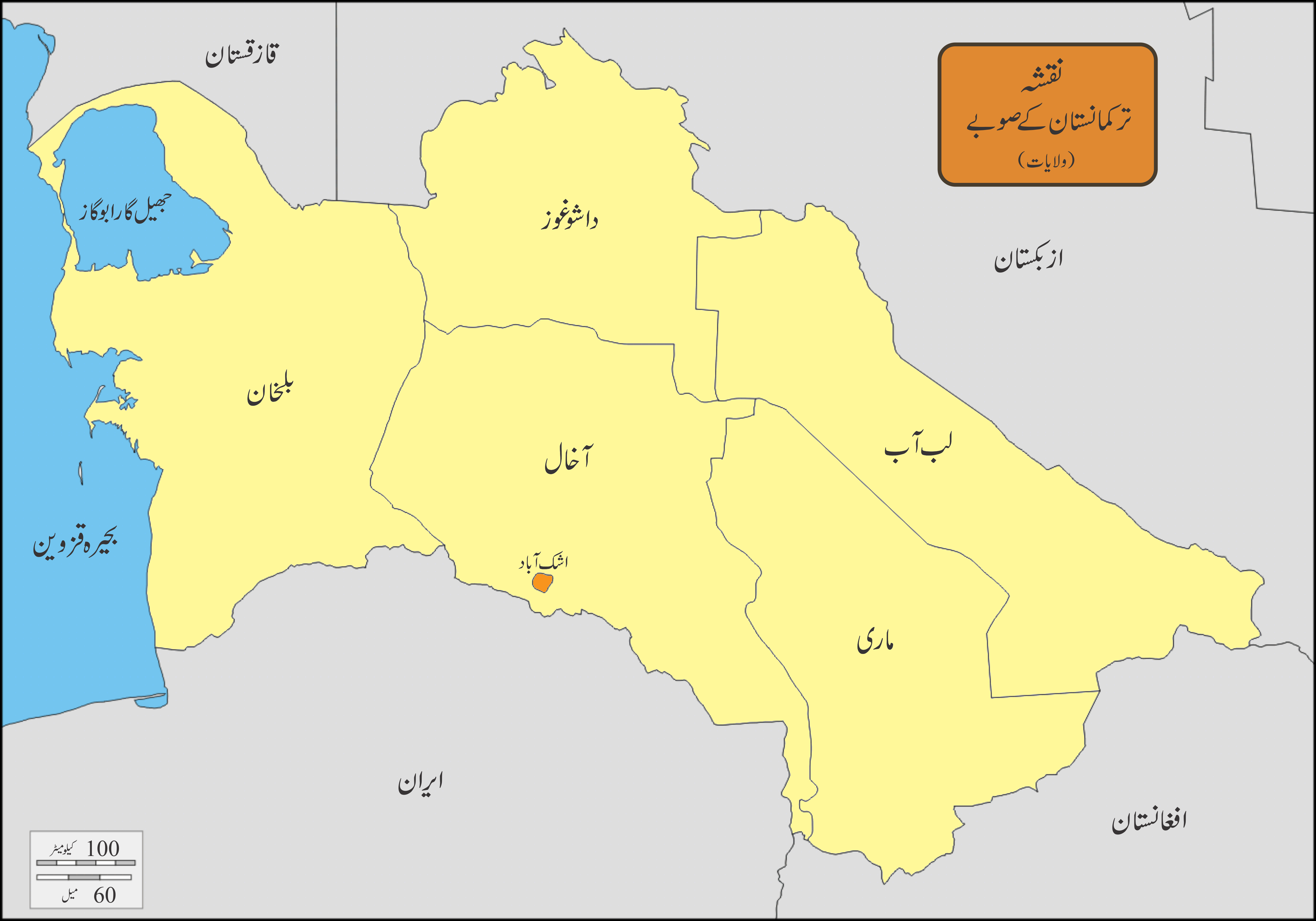 Turkmenistan Ur Ashgabat